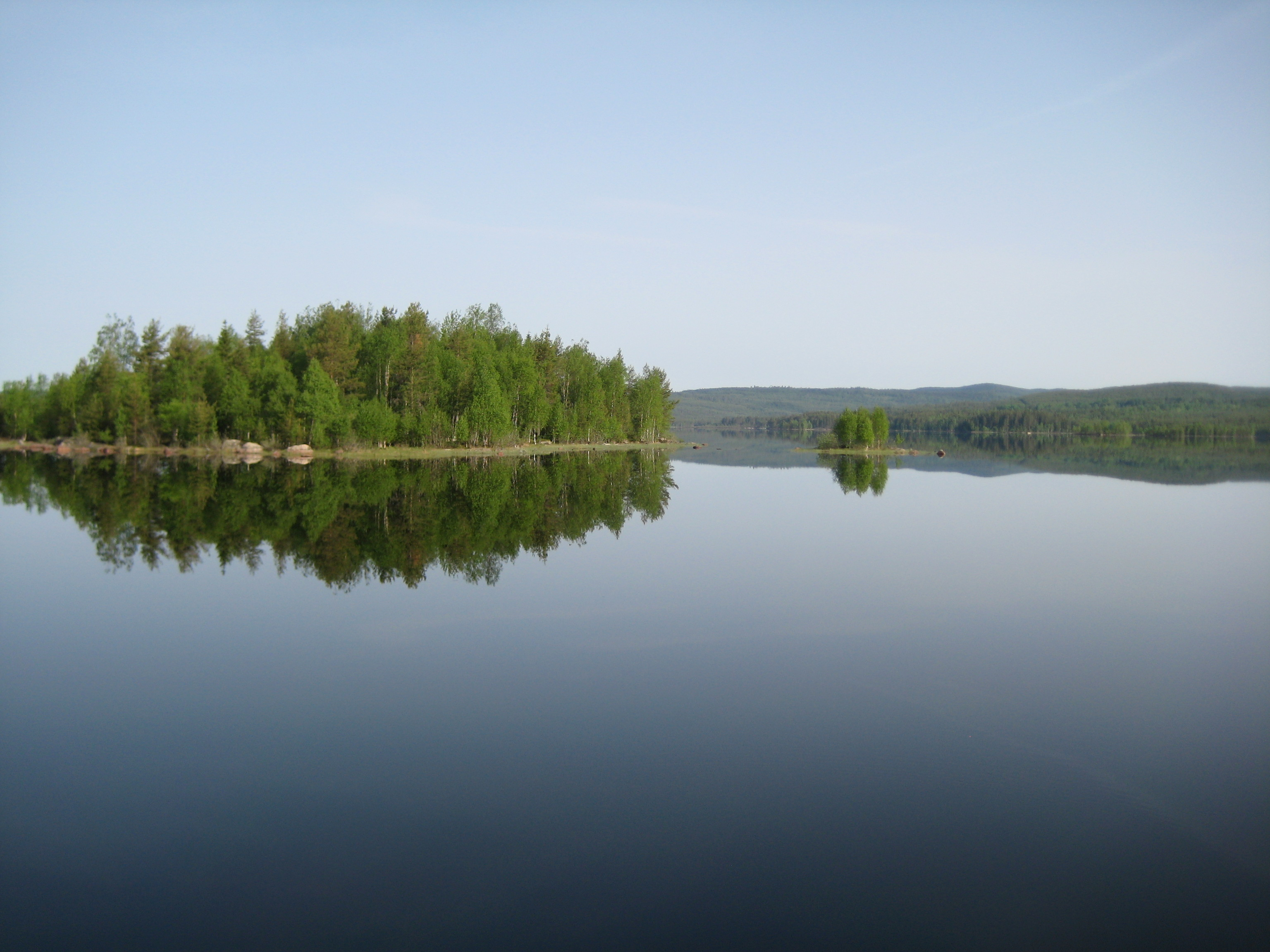 Picture of the lake Fallsjön on the border between Sweden and Norway, seen from the Swedish (East) side. (Torsby kommun/Värmland/Sweden). Camera directed approx. due north